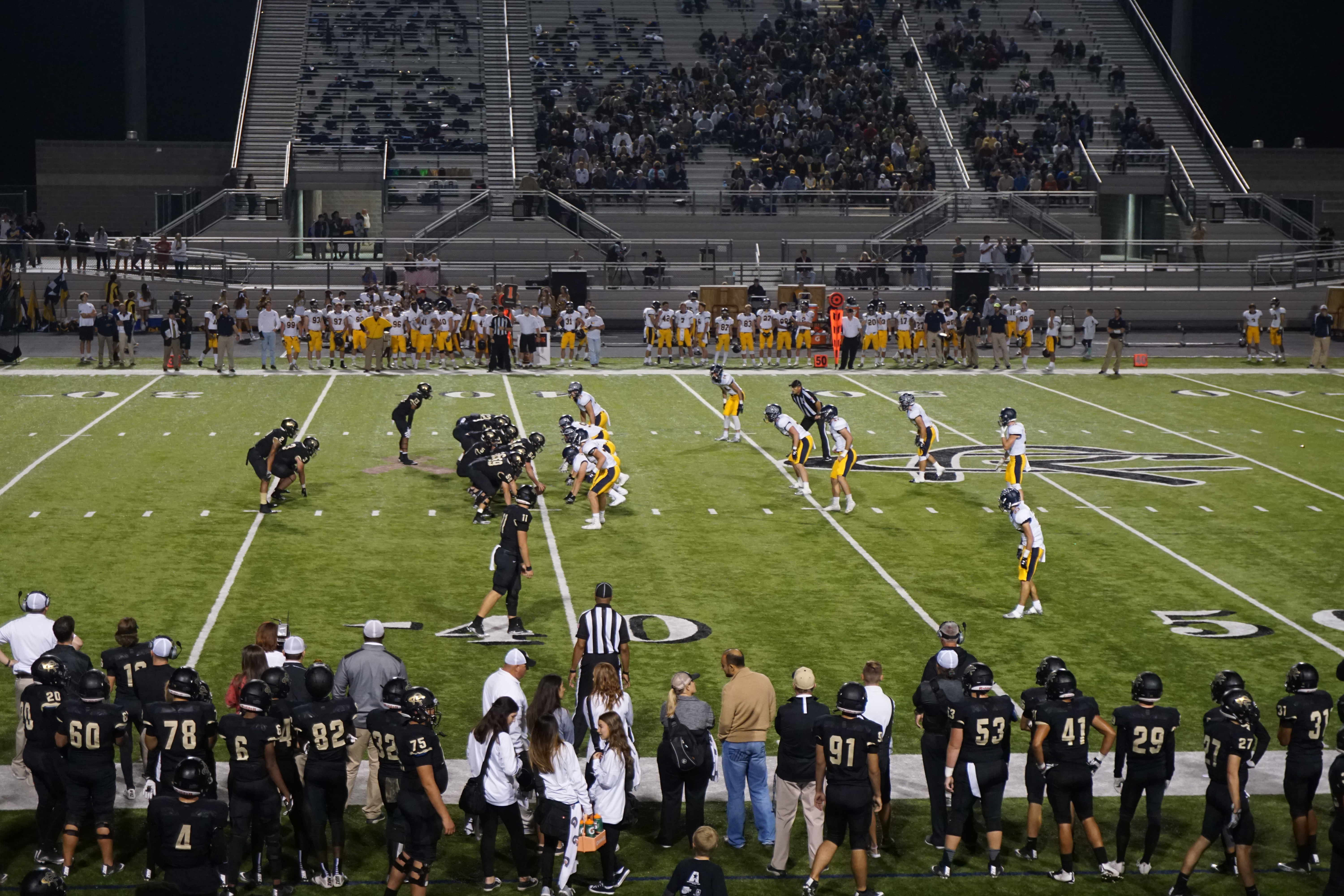 Royse City on offense during the Highland Park Scots vs. Royse City Bulldogs high school football game in Royse City, Texas (United States). Highland Park won 45–15.